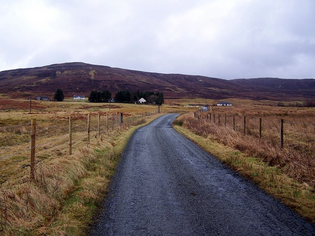 Road towards Borve, near to Borve, Highland, Great Britain. A little used road which connects Borve township to the modern A87 Portree to Uig road.